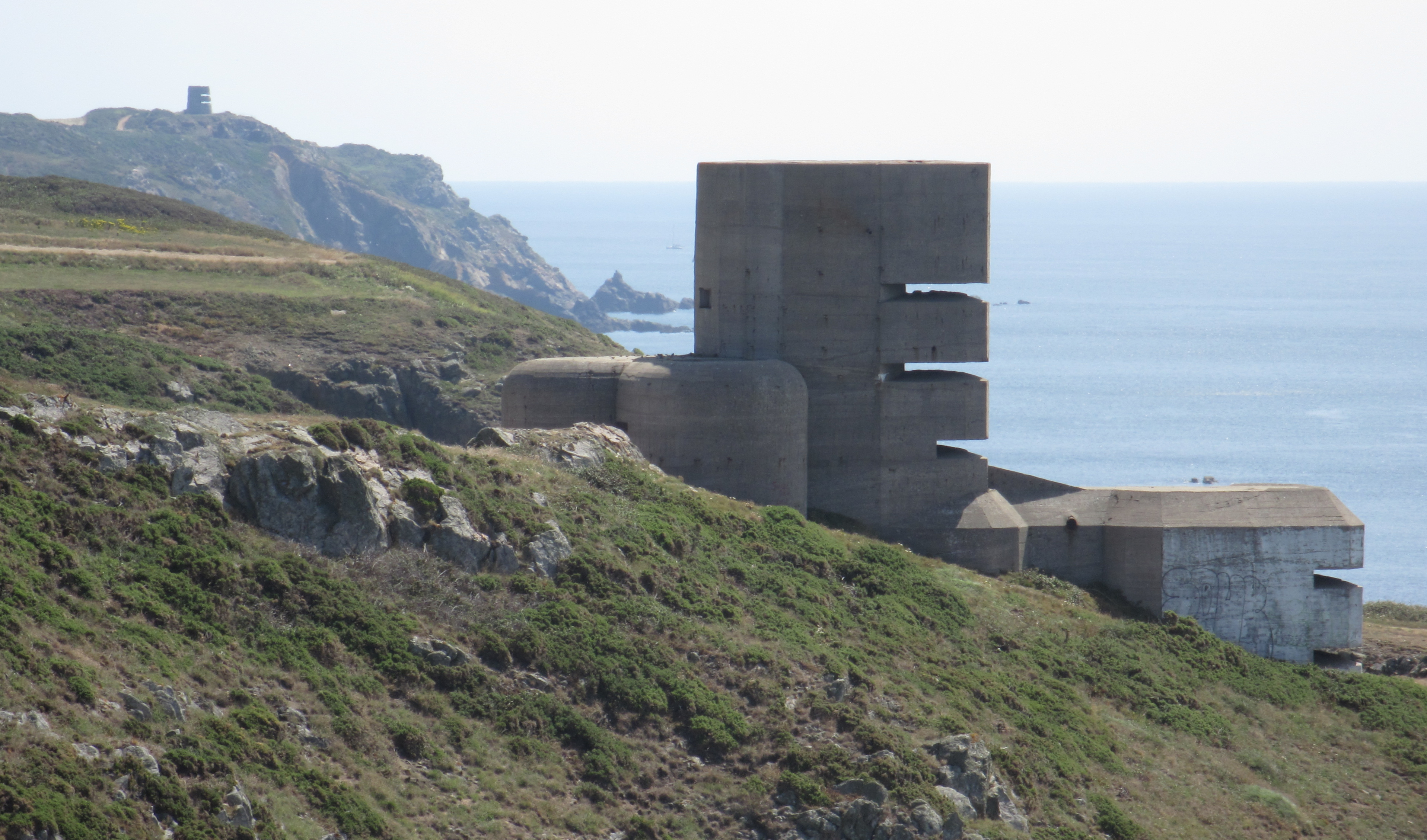 Guernsey, June-July 2011, German WW2 watchtowers on the west coast of Pleinmont